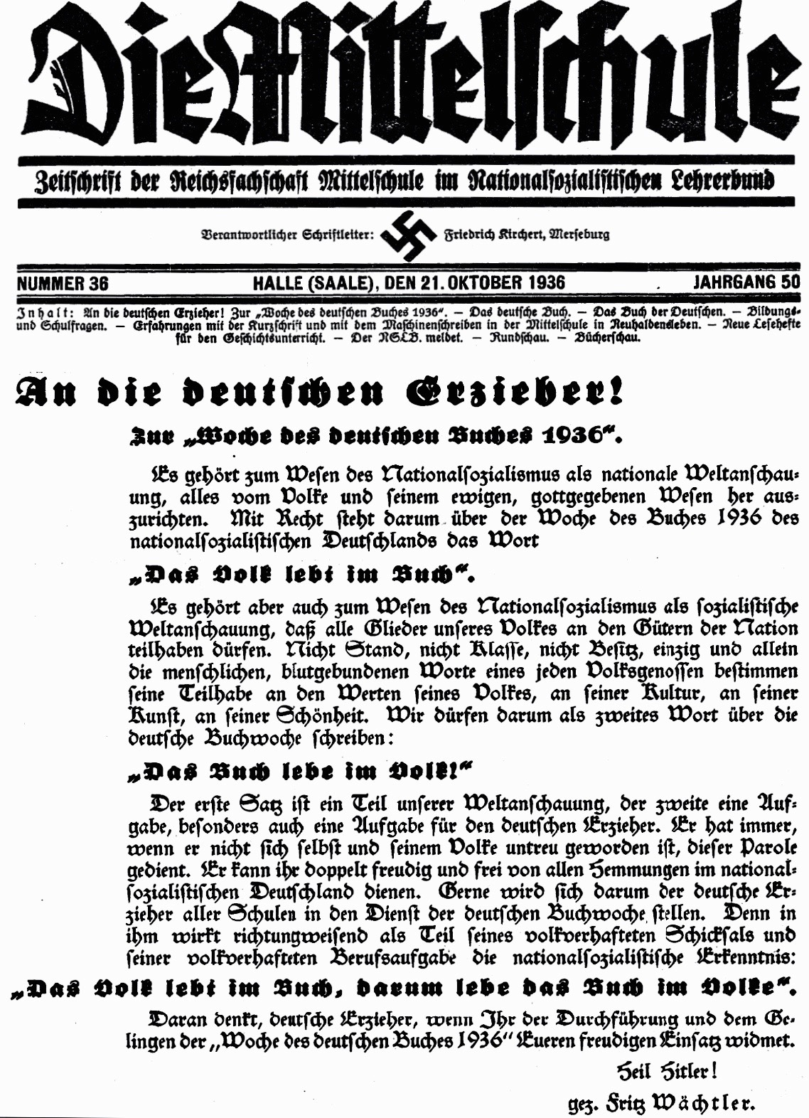 The cover of the periodical 'Mittelschule' (= middleschool) from 21 October 1936 shows an appeal to middleschool teachers to join the annual event 'Woche des deutschen Buches' (= Week of the German Book). The periodical was published by the German body of the middle school teachers in Halle/Saale, Thuringia, within the Nationalsocialist teachers association.